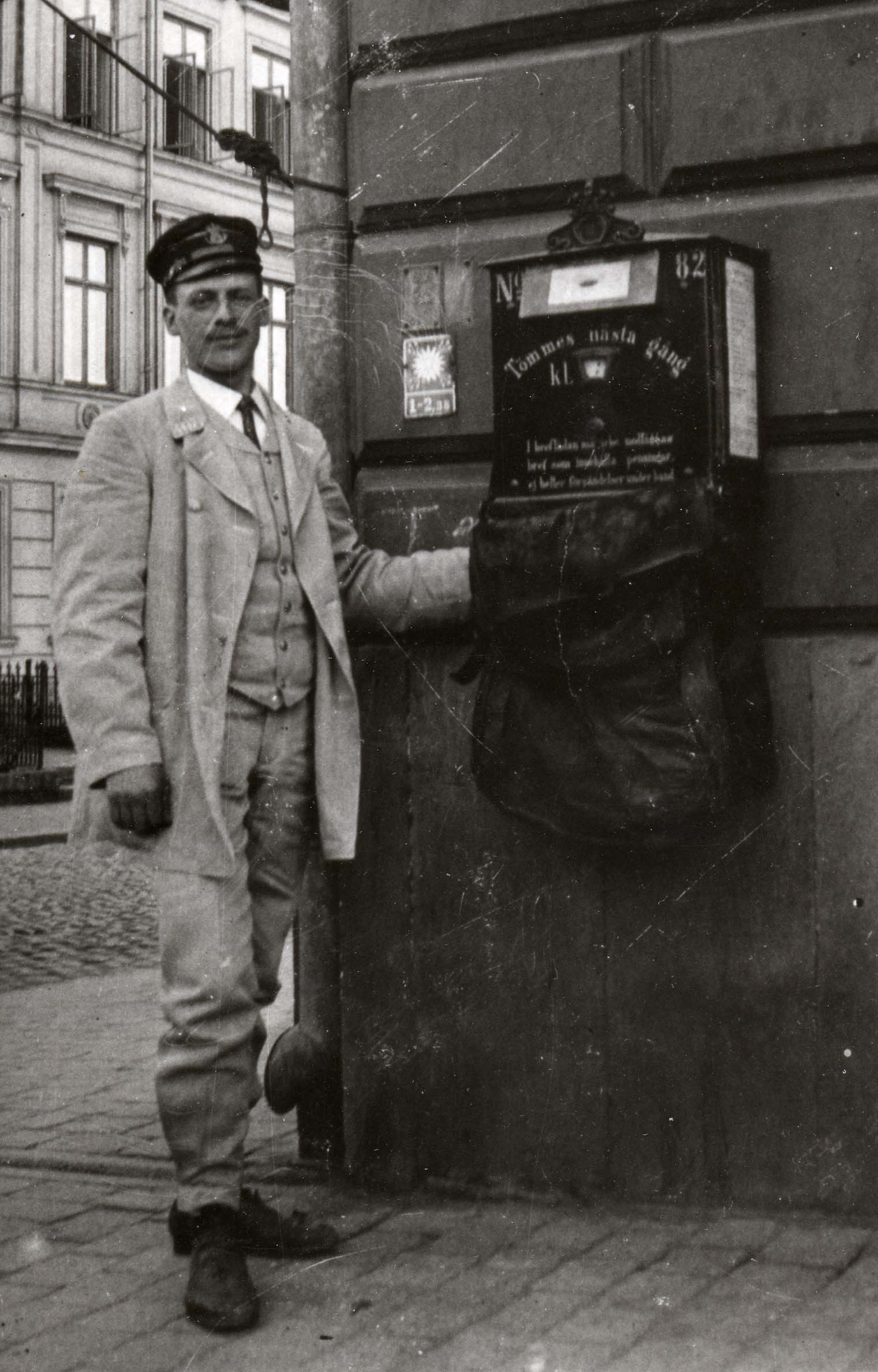 Clearence of letterbox of the Wiberg type in Stockholm 1908-1910